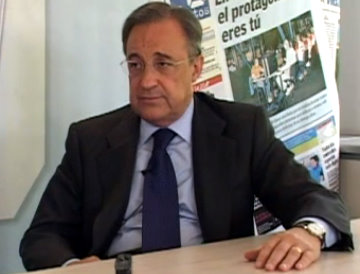 Florentino Pérez interviewed at 20 minutos